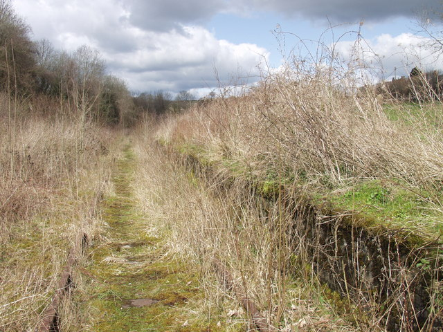 Porthywaen Halt, near Llynclys A long disused halt just before the railway to Blodwel crosses the A 495. Useful link